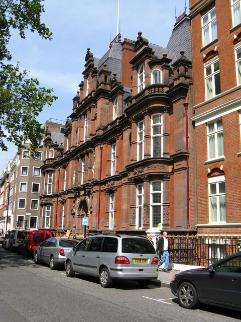 Westminster Town Hall, Caxton Street This excellent building in the Dutch style is the former Westminster Town Hall, no longer used as such.